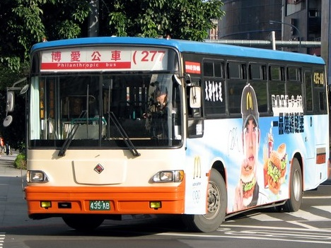 Metropolitan Transport Corporation Philanthropic Bus.